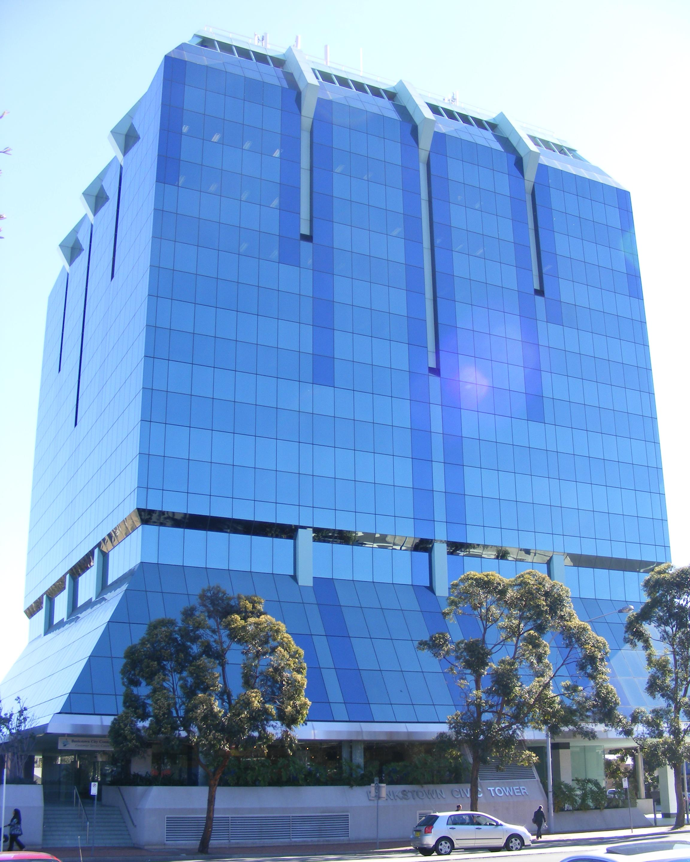 Bankstown Civic Tower. Bankstwon Sydney Australia.